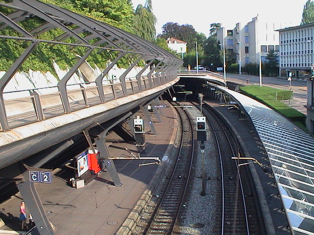 Station Stadelhofen in Zürich, Switzerland